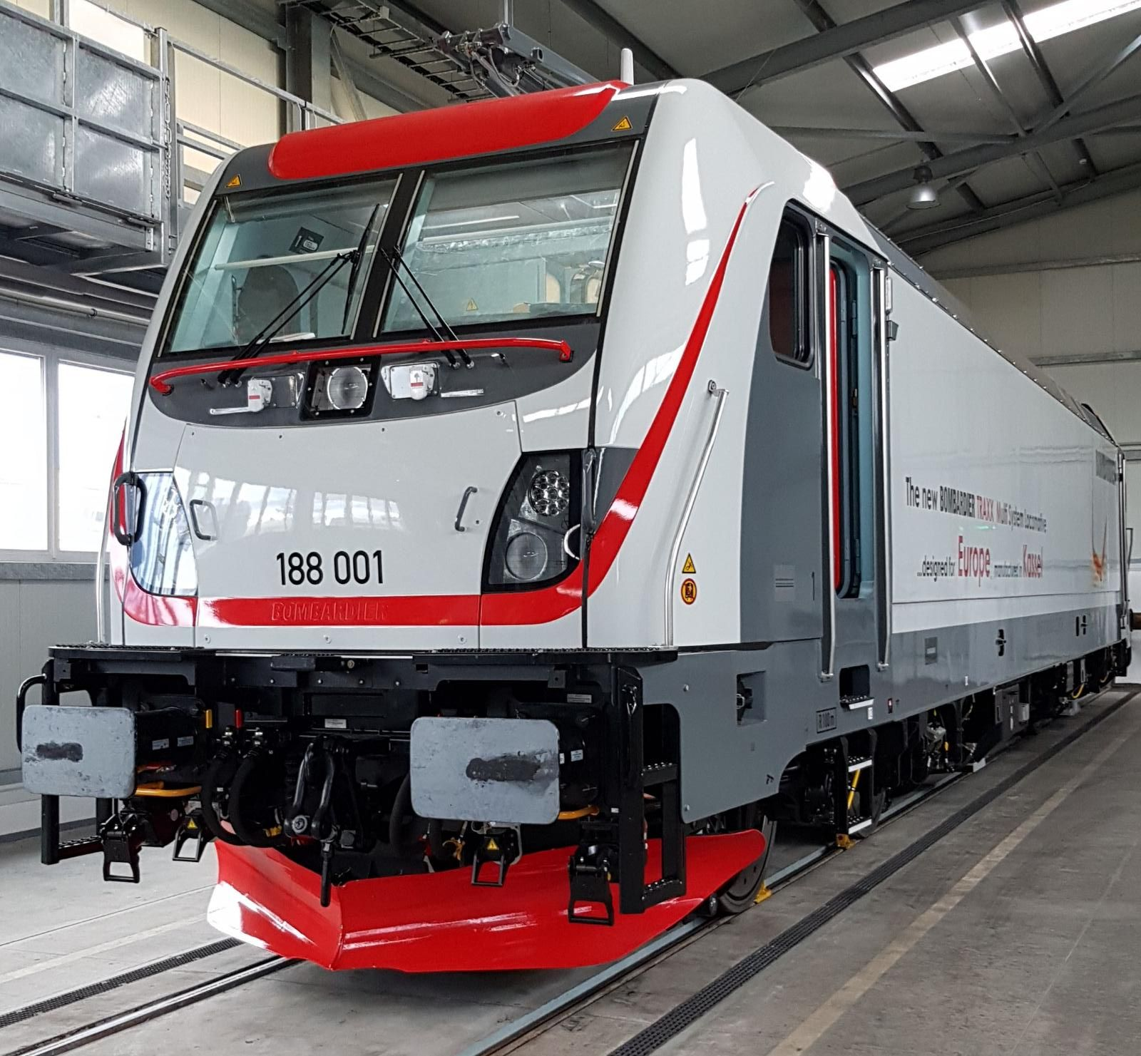 188 001 (Bombardier TRAXX MS3) in a hall of the Velim railway test circuit.